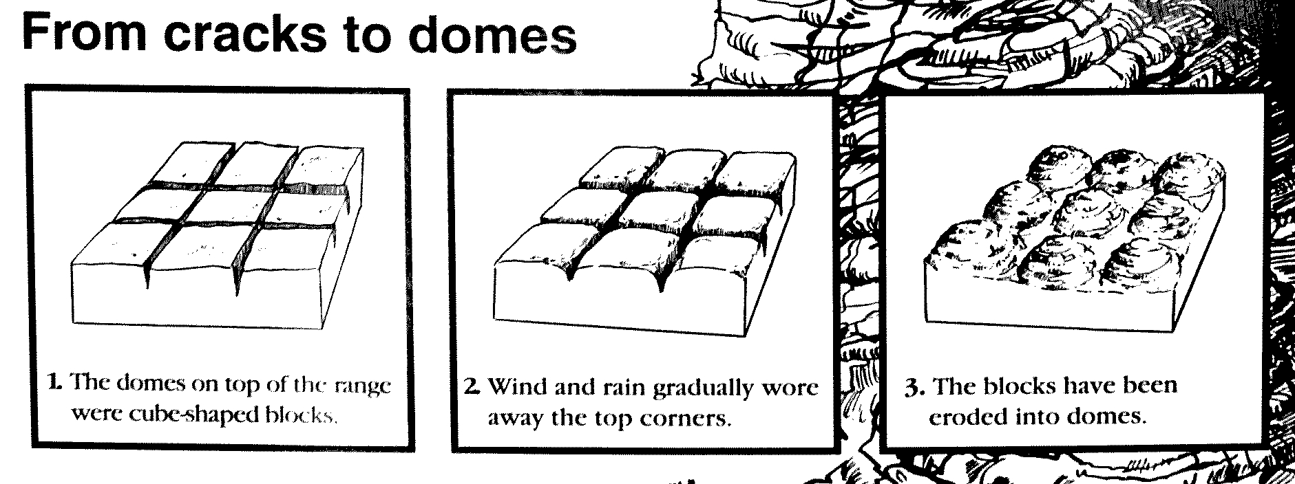 Graphic explaining the formation of the domes of the plateau surrounding the Kings Canyon, which is located in the Wattarka National Park, Northern Territory, Australia.